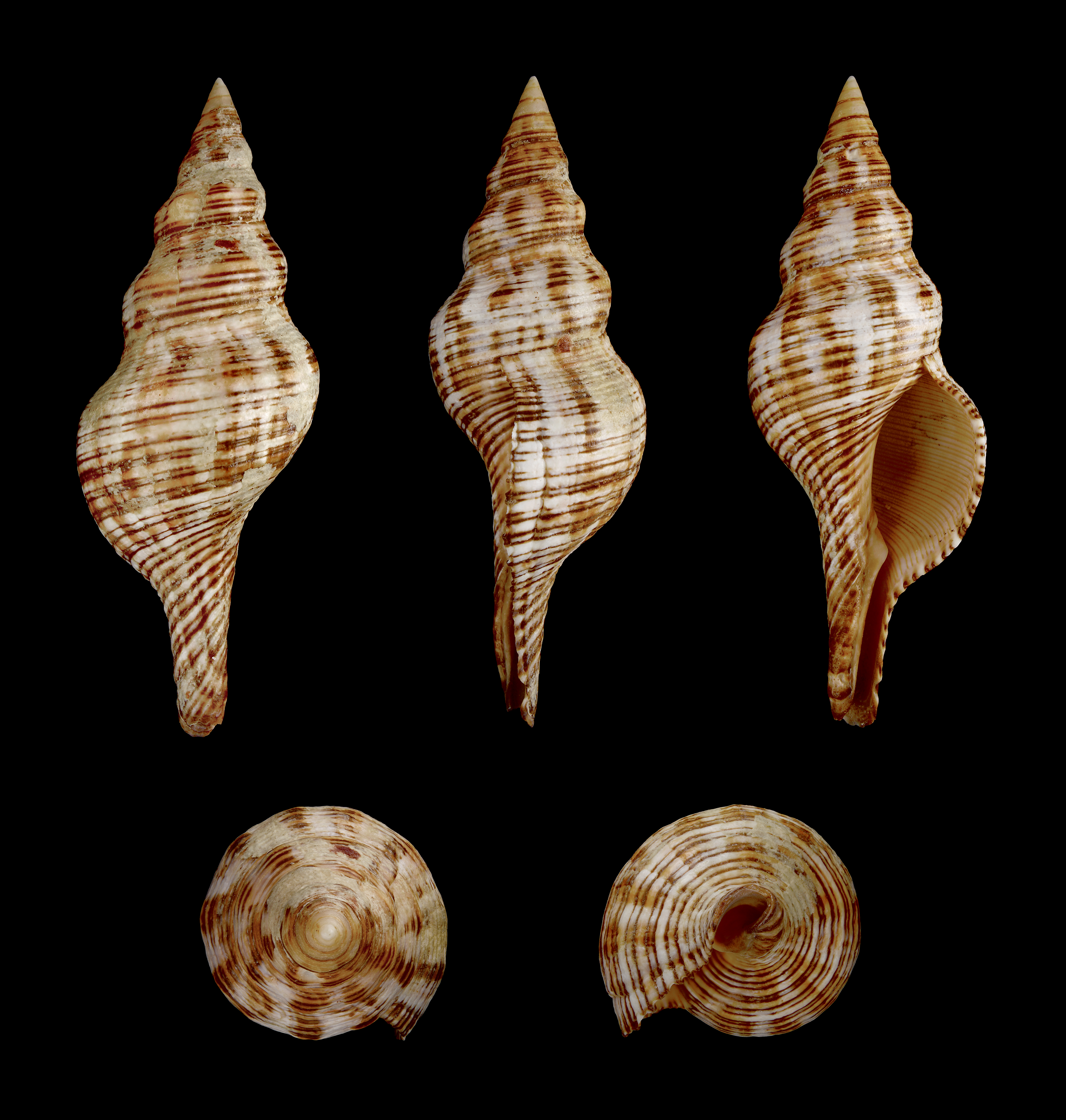 Filamentous Horse Conch; Length 11.5 cm; Originating from the Indo-Pacific; Shell of own collection, therefore not geocoded. Dorsal, lateral (right side), ventral, back, and front view.